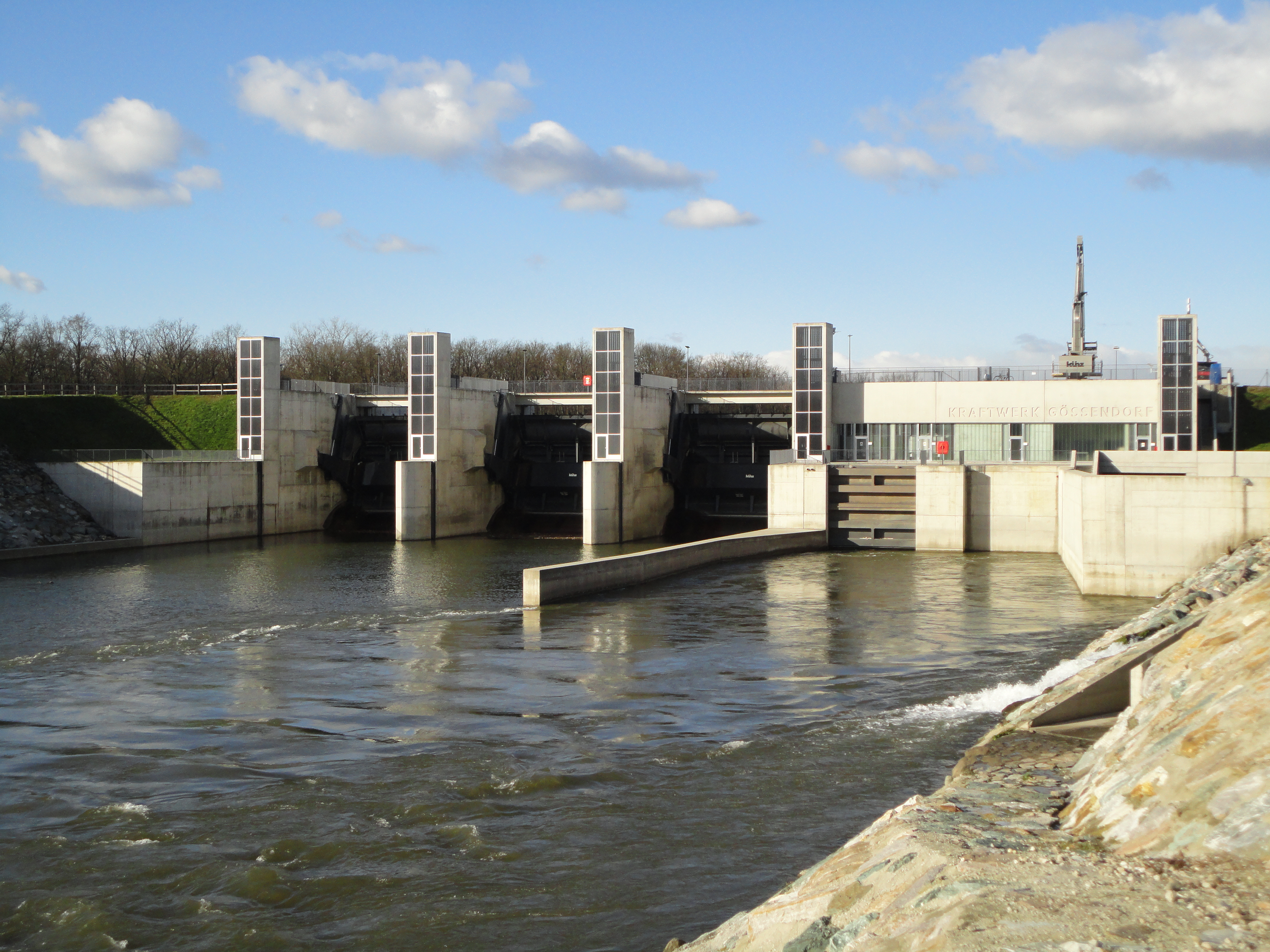 Powerplant in Gössendorf, Styria, Austria